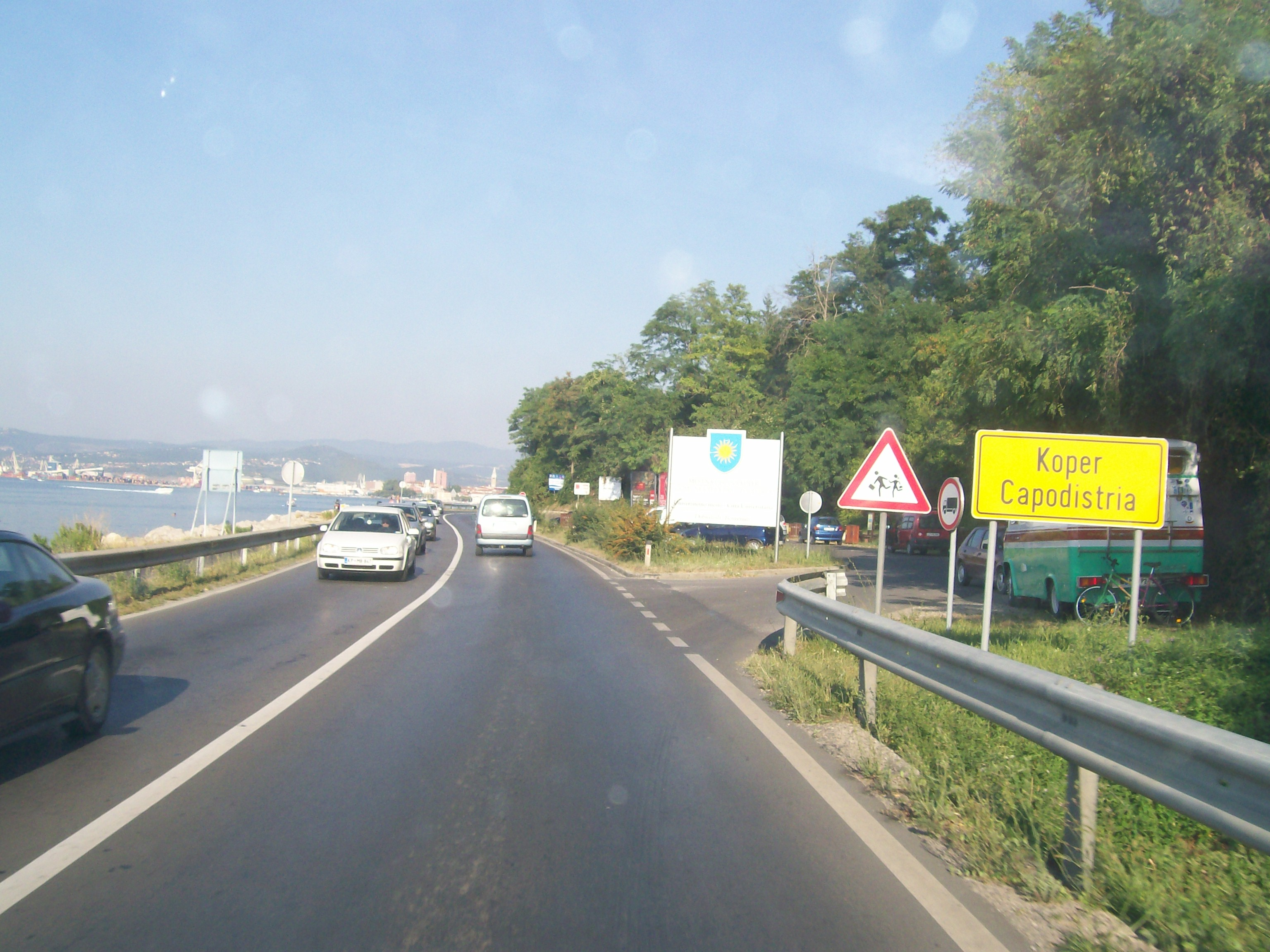 Road 101 near Koper/Capodistria, Slovenia